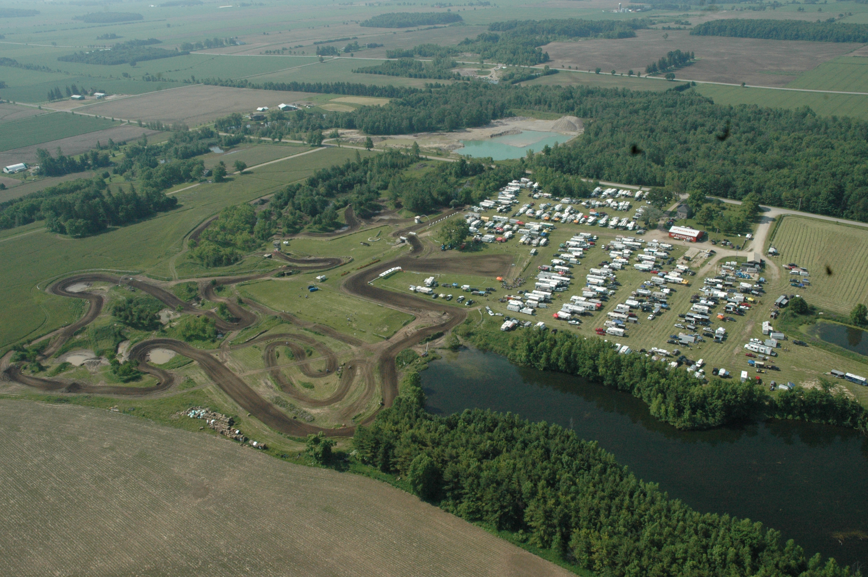 Spring 2011 motocross with the CMRC southwestern Ontario region club. Home of the TransCan Grand National Championship every August - Canada's biggest motocross event